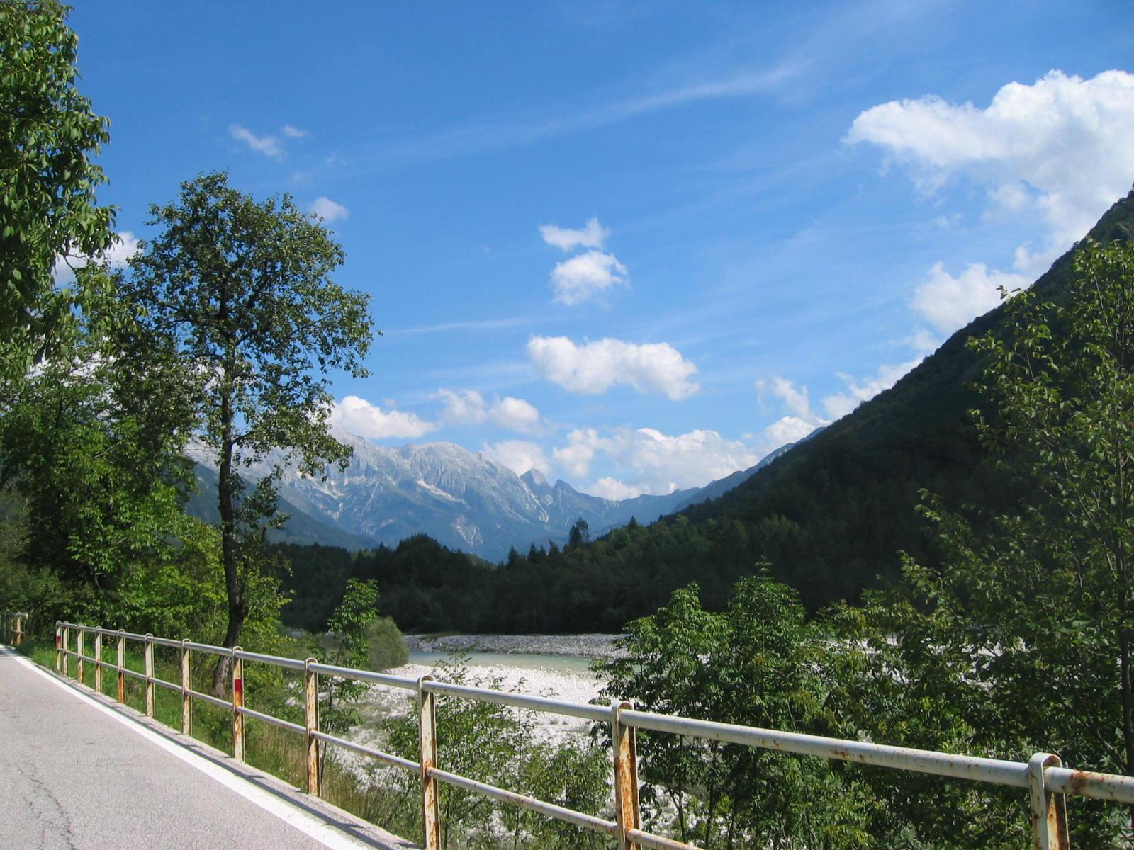 Val Resia (slovene: Rezija), alpine valley in notheast Italy photo:Ziga 08:20, 9 February 2007 (UTC)